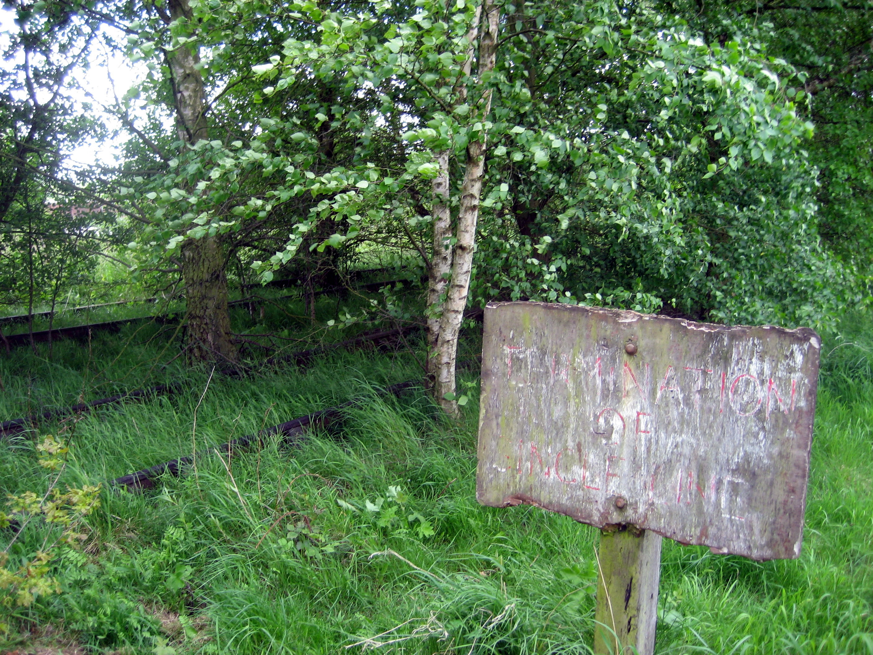 Disused sidings on the Cheadle Branch Line at Cresswell, Staffordshire, England.